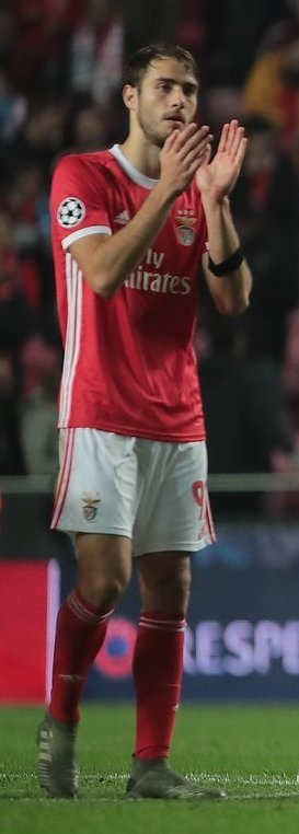 Benfica-Zenit UEFA Champions League 2019/20 (10/12/2019)